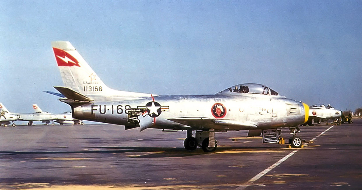 431st Fighter-Interceptor Squadron - North American F-86F-20-NH Sabre - 51-13168